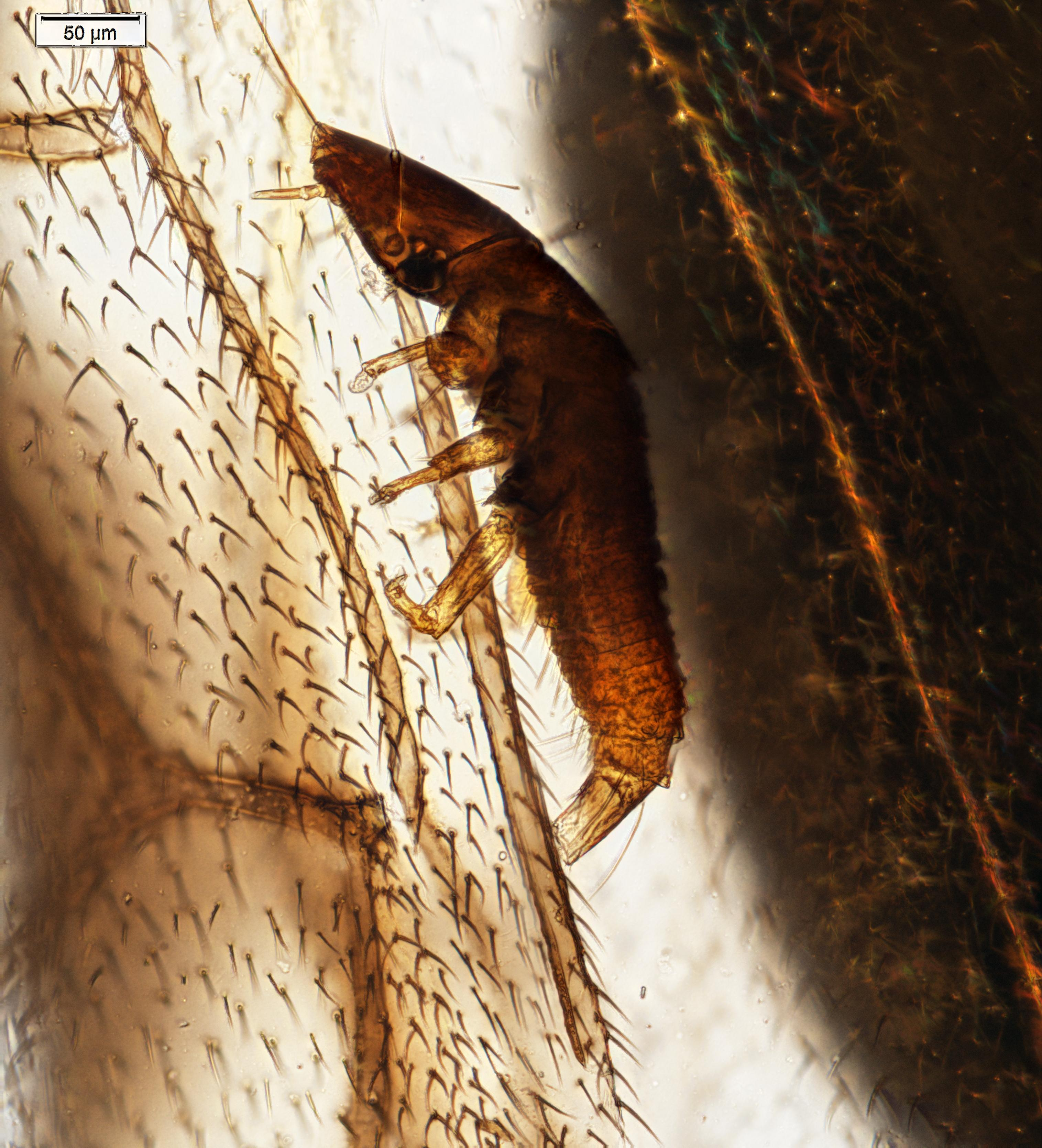 Ripiphorid larva on the wing of a braconid wasp. Photo by István Mikó